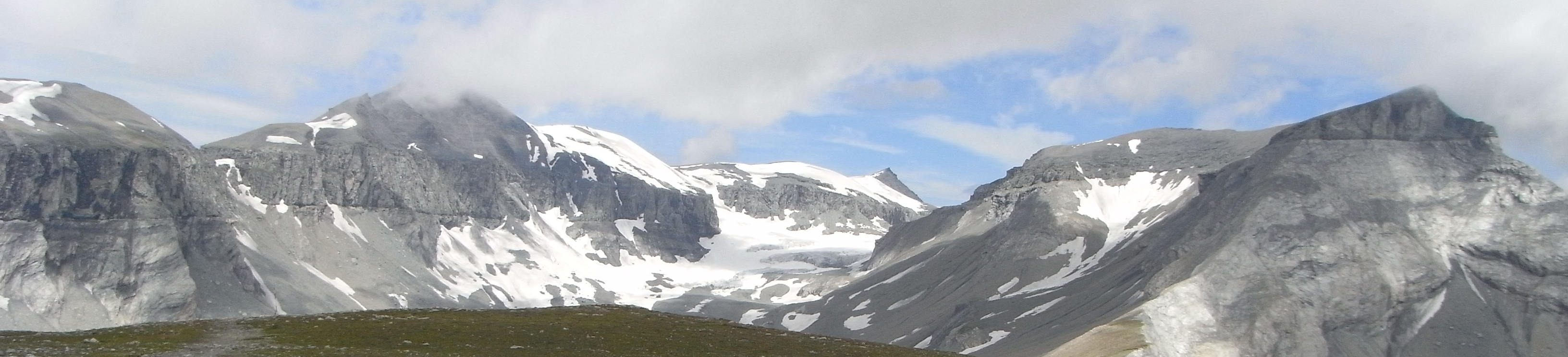 Glarus thrust fault at Piz Segnes (half left) and Piz Dolf (right)